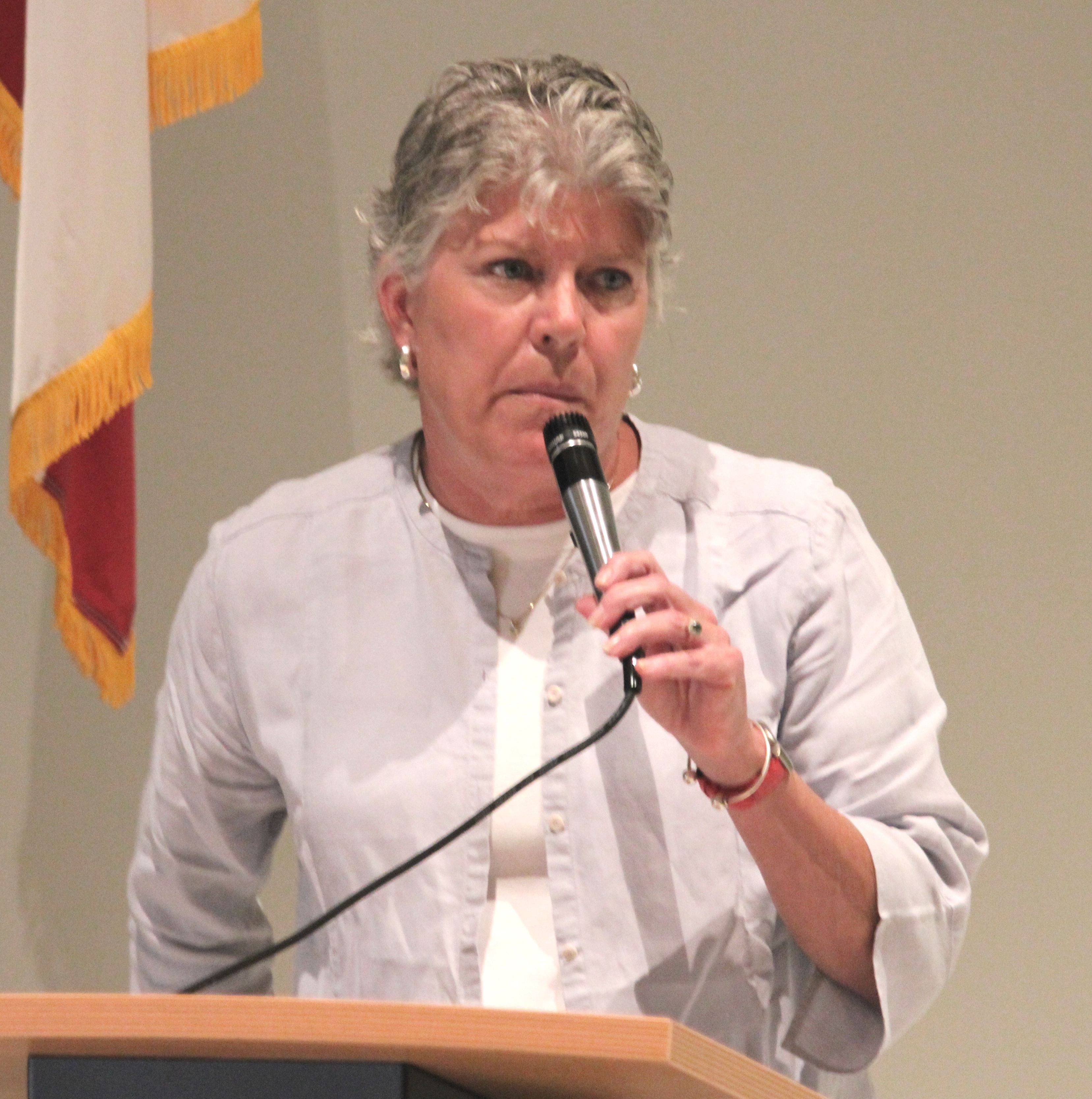 Julia Brownley-State Assembly-Democratic Advocates for Disability Issues-DADI-Kennedy Democrats-Granada Hills-91344-818-VAAS